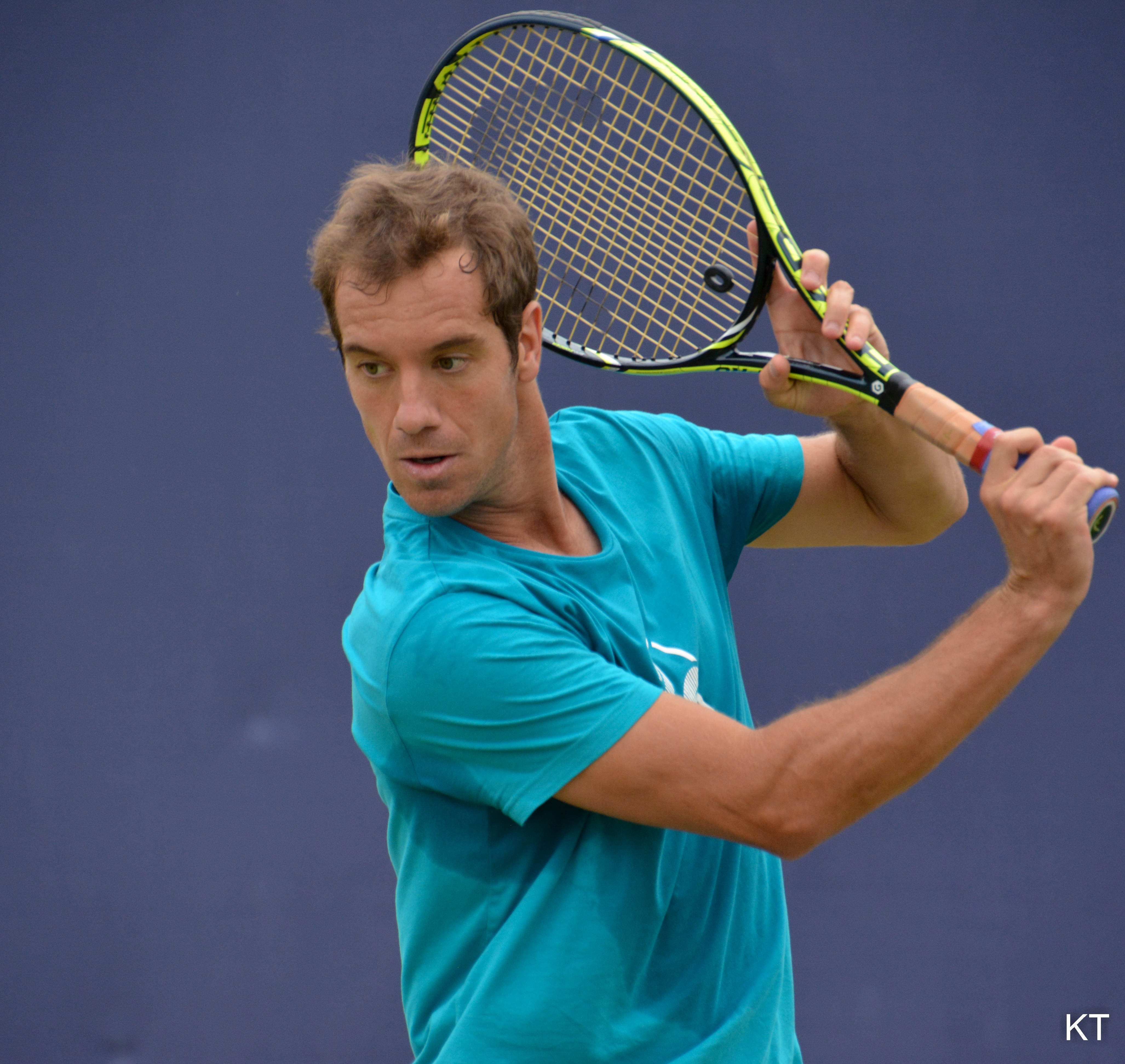 On the practice court. Aegon Championships, Queen's Club, June 2015.